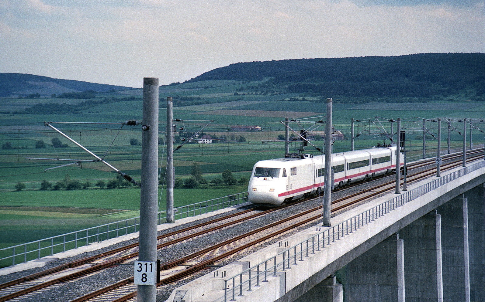 The ICE precedessor InterCityExperimental on the Bartelsgrabental Bridge, travelling from Würzburg to Fulda.